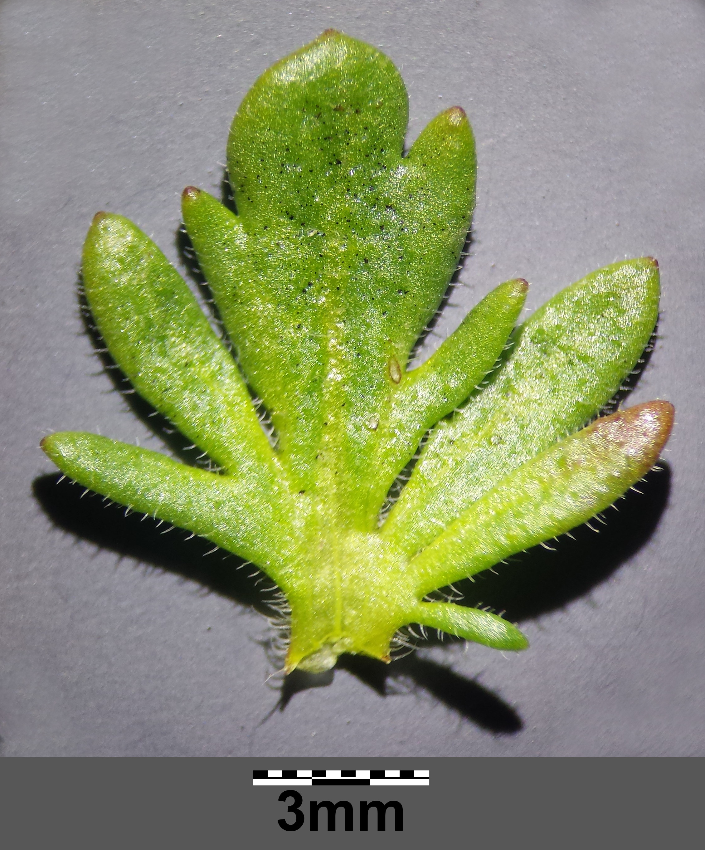 Leaf Taxonym: Veronica dillenii ss Fischer et al. EfÖLS 2008 ISBN 978-3-85474-187-9 Location: Hühnerbühel near Etzmannsdorf, district Horn, Lower Austria - ca. 350 m a.s.l. Habitat: acid dry grassland